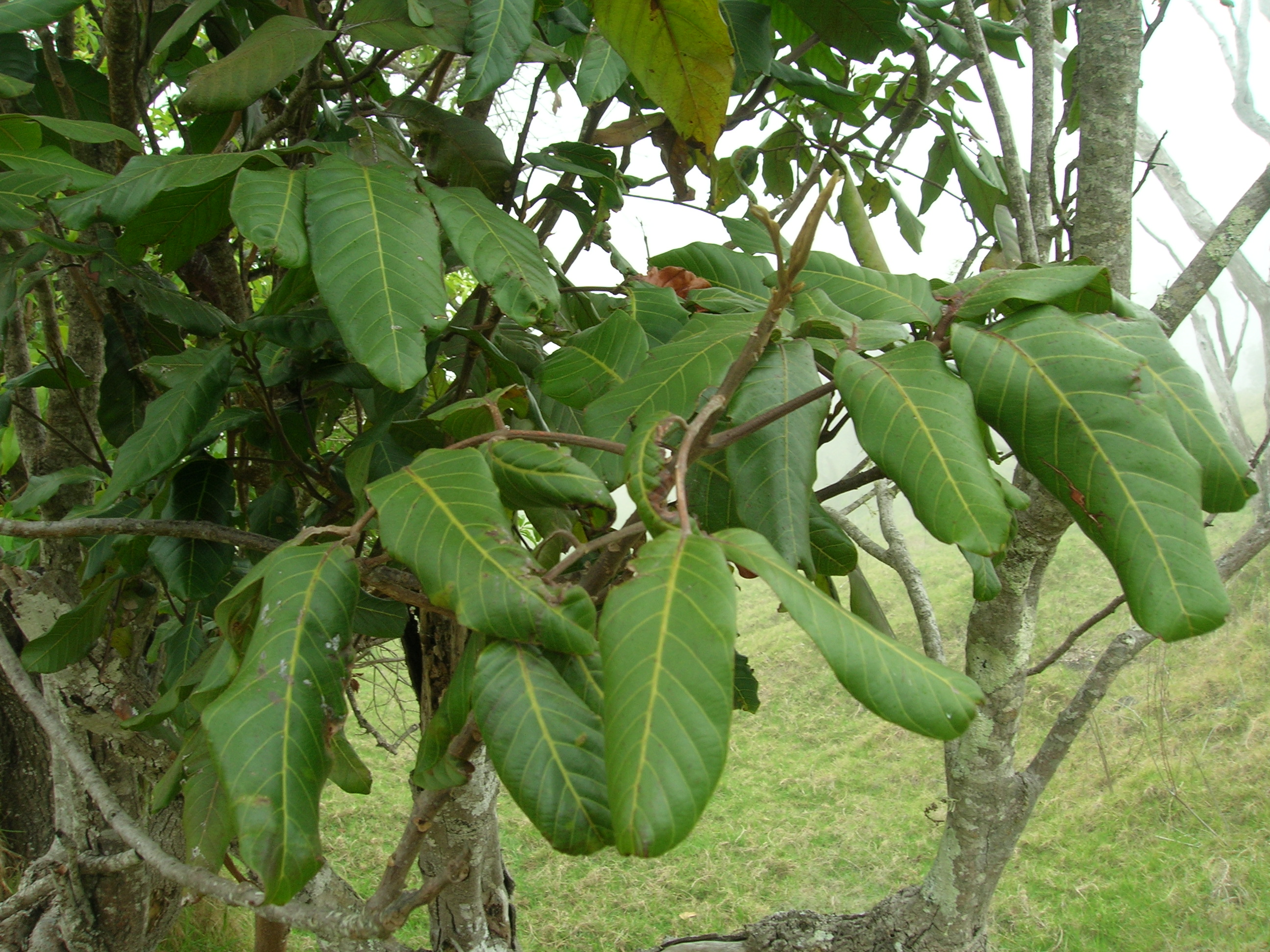 Alectryon macrococcus var. auwahiensis (leaves). Location: Maui, Auwahi